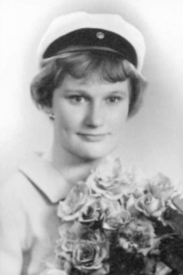 18 years old Tarja Halonen in her graduation picture from 1962